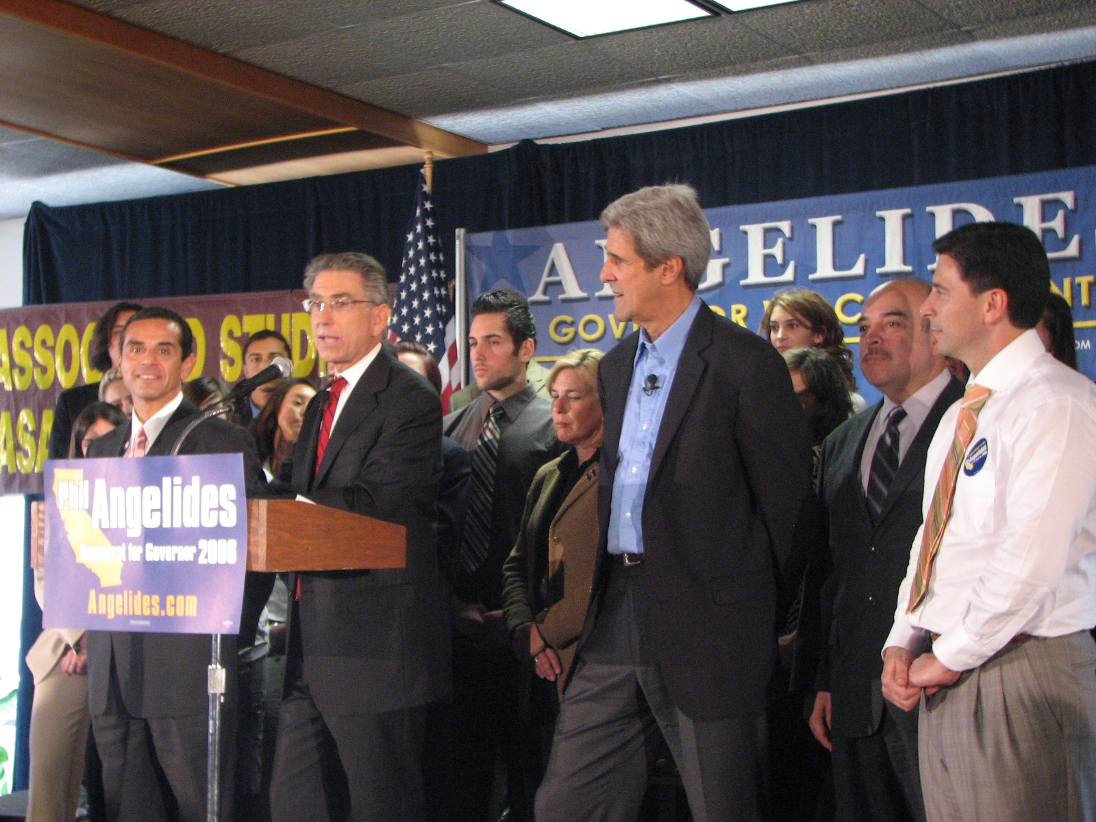 John Kerry, Antonio Villaraigosa, Fabian Nunez and Cruz Bustamante at an October 30 2006 rally for Phil Angelides at Pasadena City College.